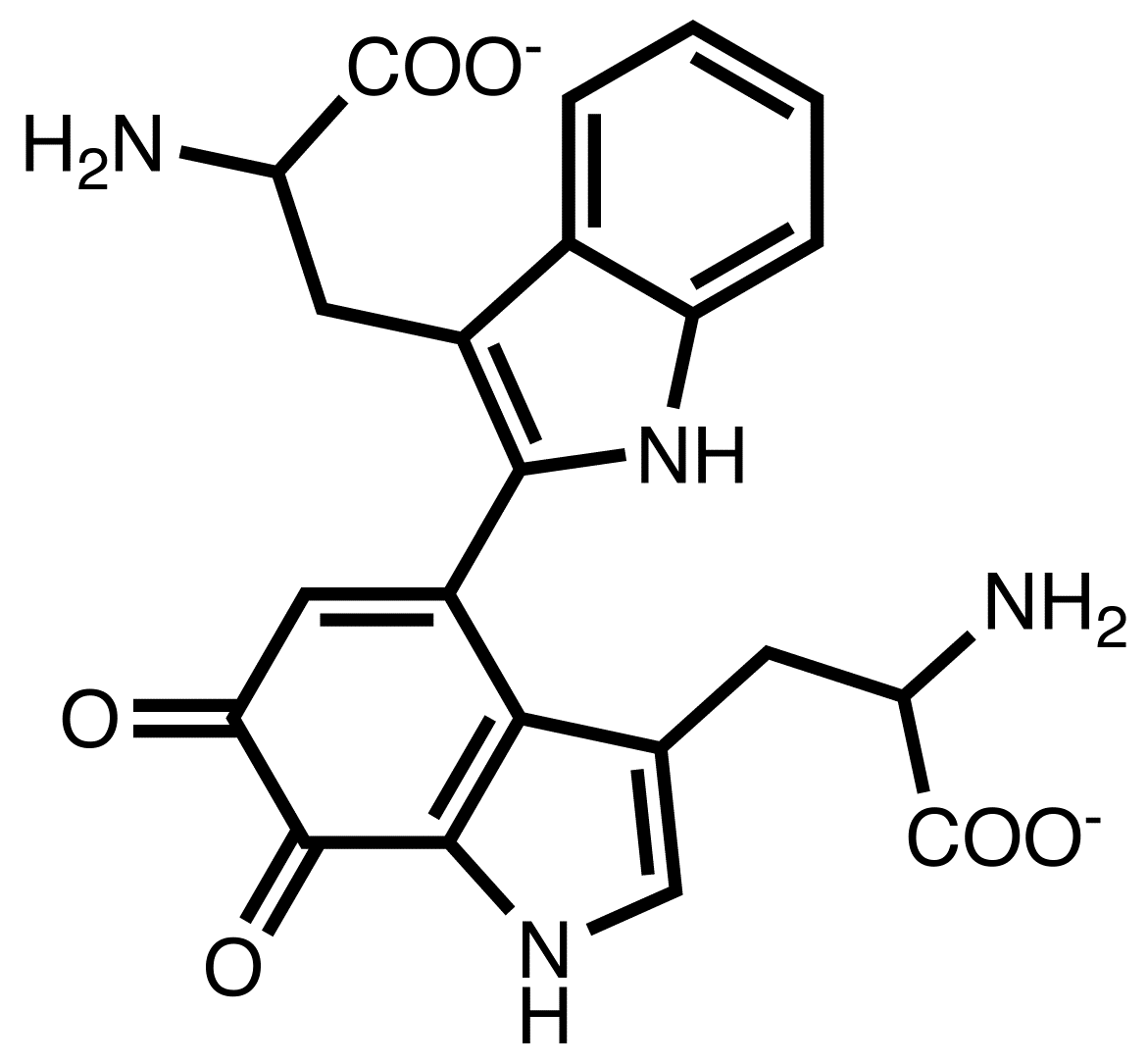 Structure of TTQ without reference to specific protein